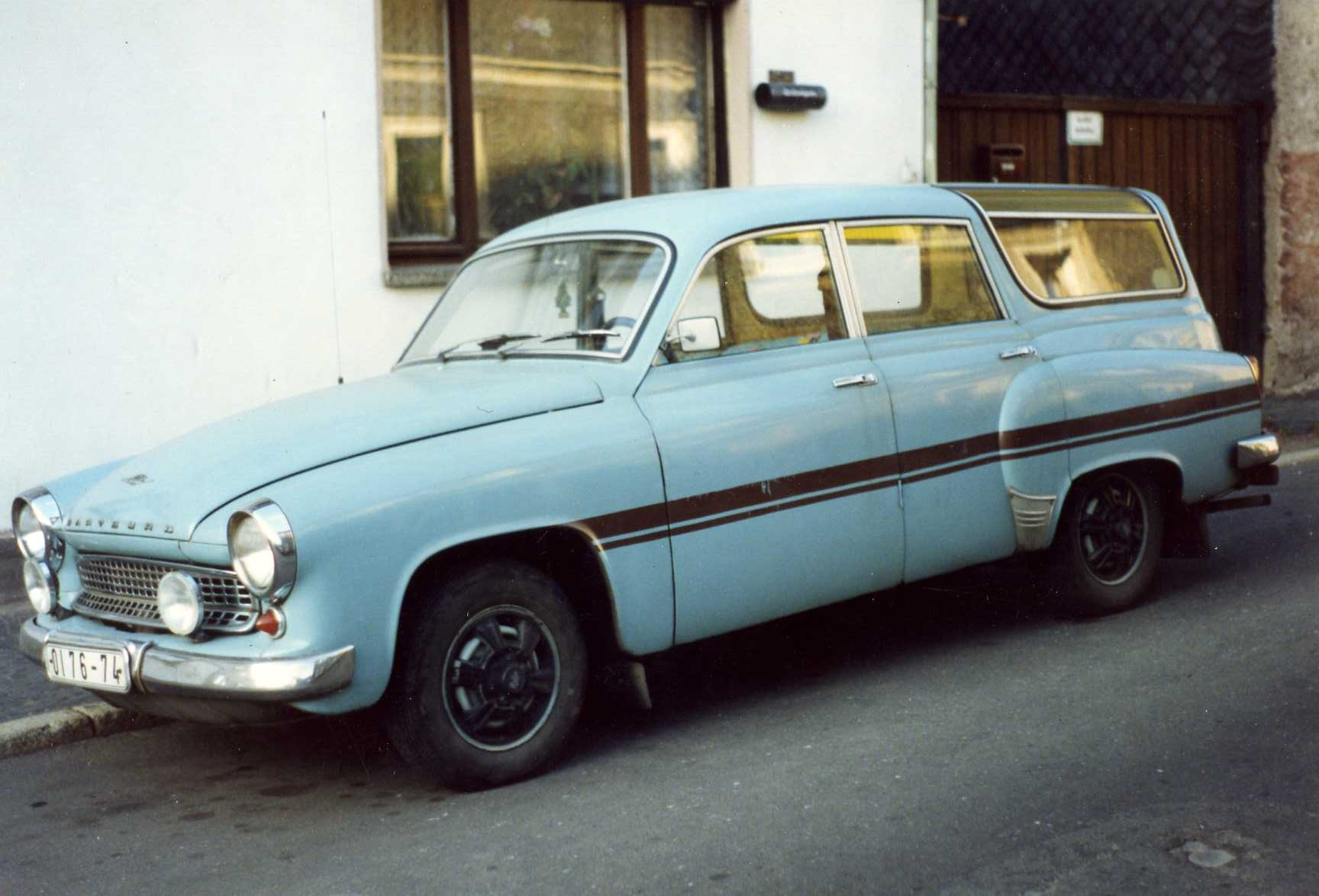 The attractive Camper variant, not in concours condition, with go faster stripes. It may have been taken in Lauscha. DDR postcards publishers also liked to incorporate one of these into their Campsite views. O registration for Bezirk Suhl. The DDR Kennzeichen were still used throughout 1991. Website for the Wartburg 311 Camping here